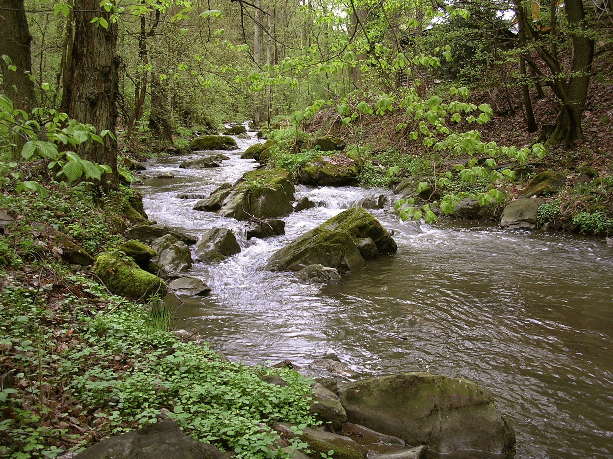 Davle and Klínec, Central Bohemian Region, the Czech Republic. Bojovský Creek near Spálený mlýn.